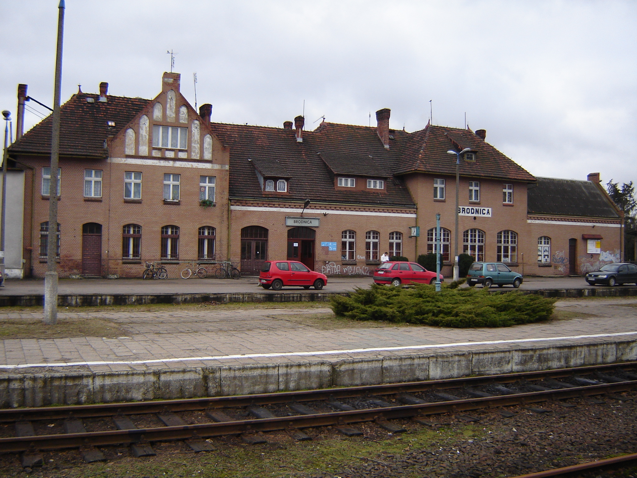 Brodnica train station.